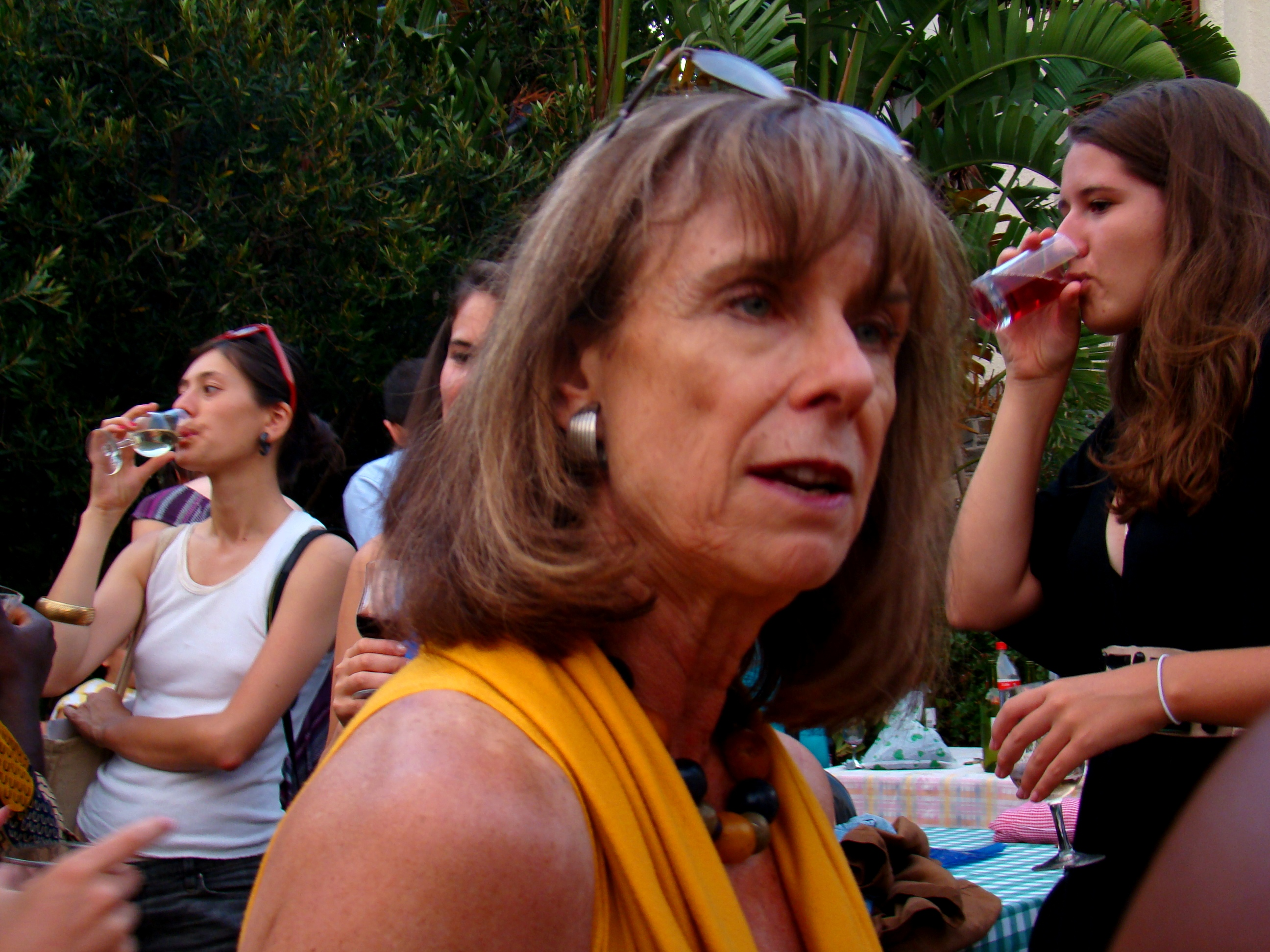 Picture of Professor Jean Comaroff of the University of Chicago.